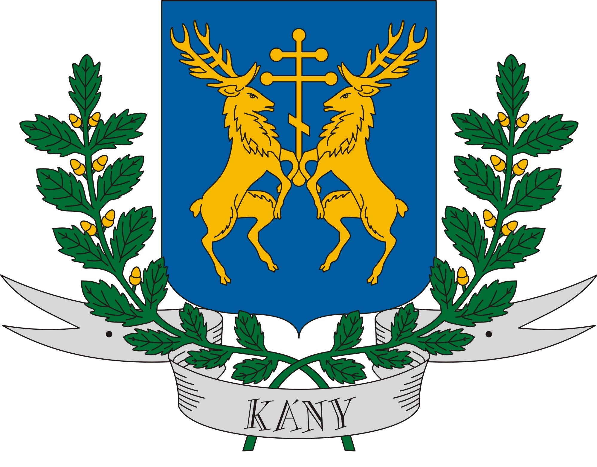 Coat of arms of Kány, Hungary